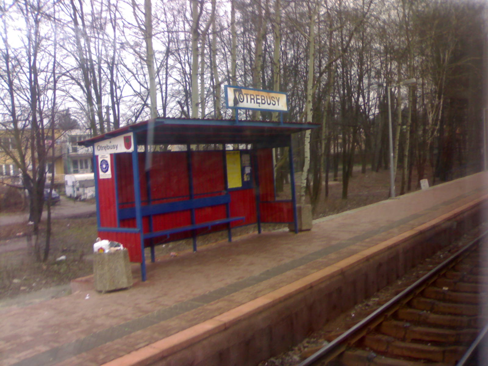 WKD train stop in Otrebusy